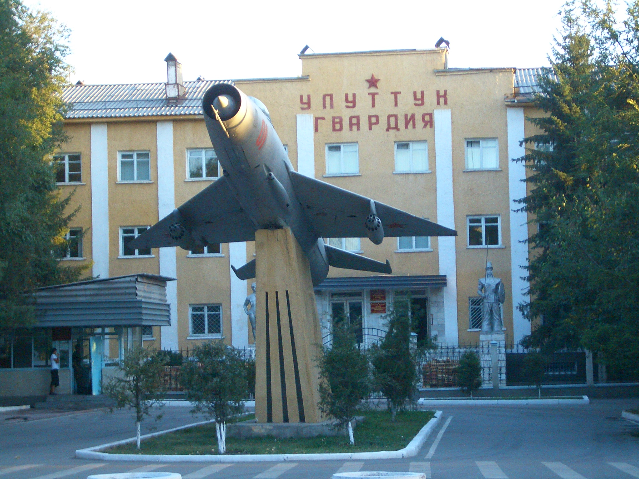 MiG-21F as a monument in front of some kind of military institution in downtown Bishkek. (A few blocks NW of the main train station). The big sign in Kyrgyz says "Улуттук гвардия" ('National Guard')